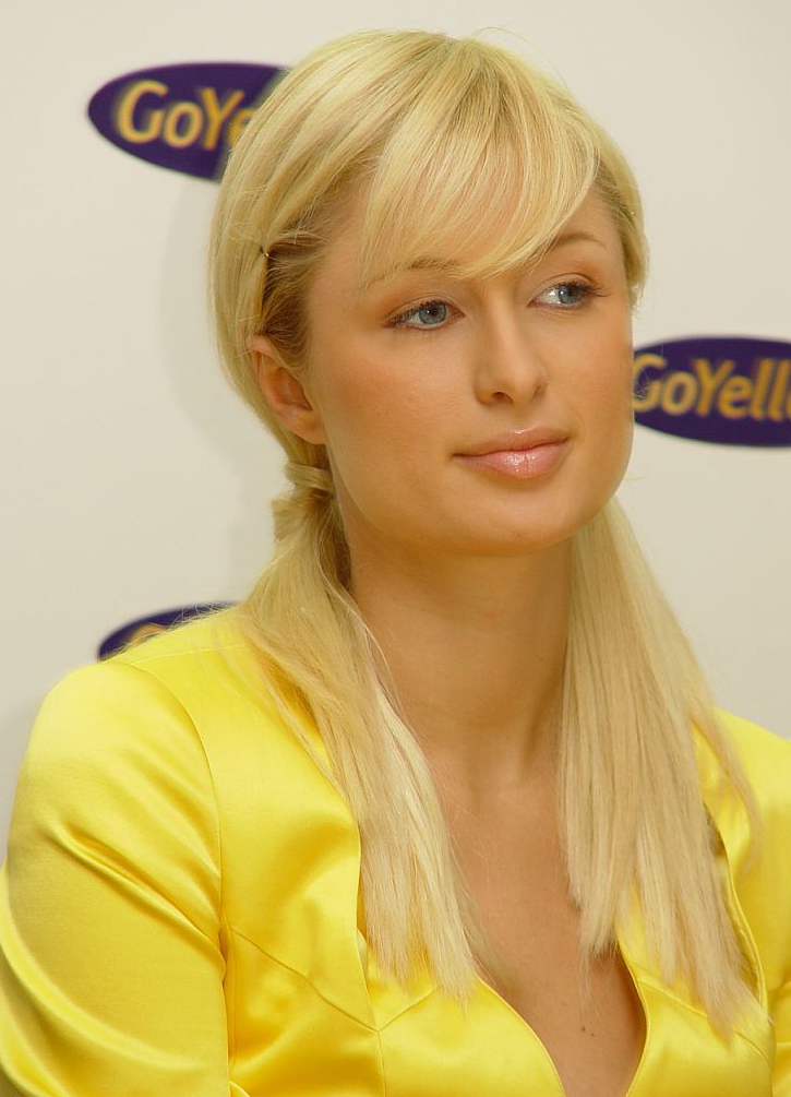 Paris Hilton at a press conference for GoYellow.de in Munich.